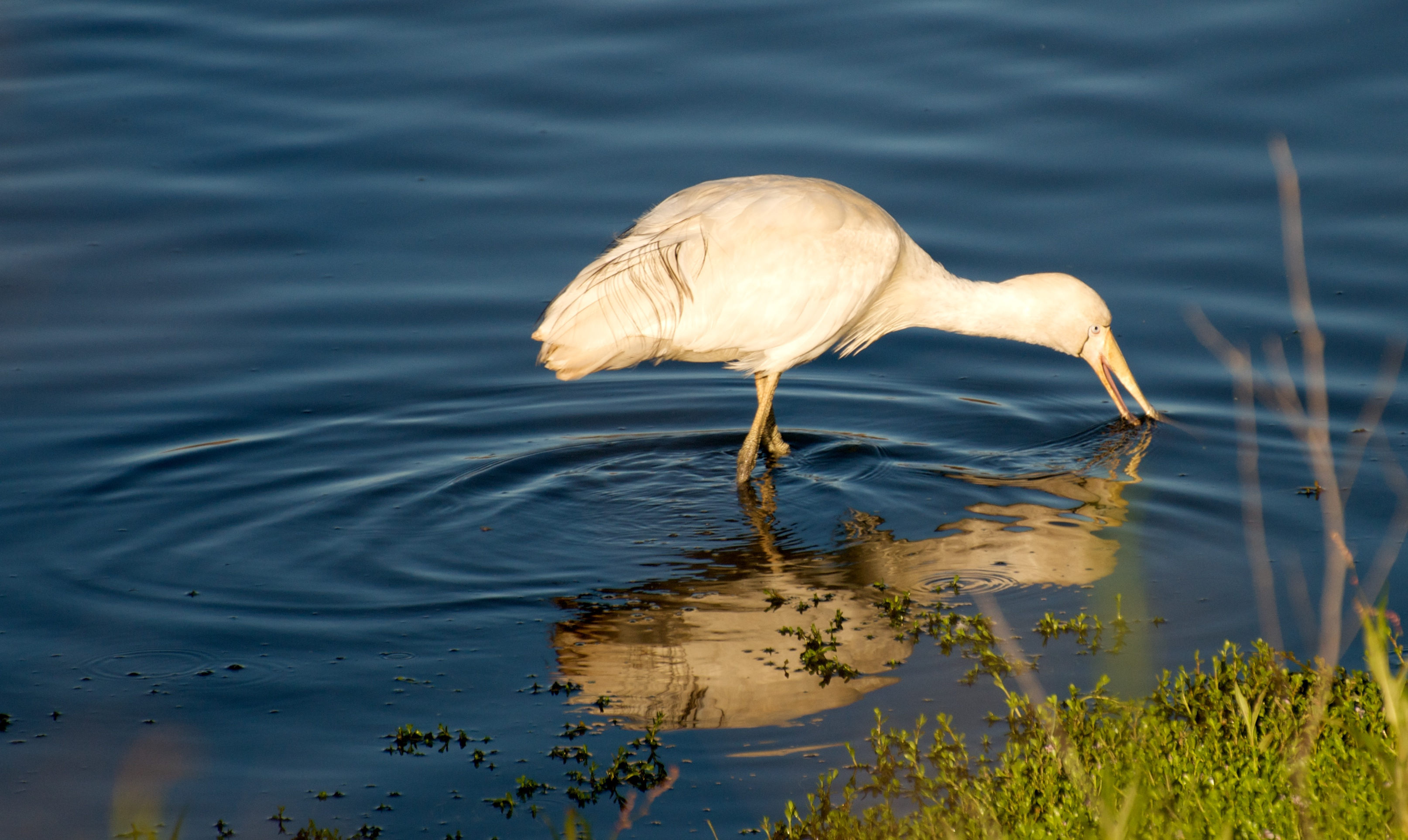 Yellow-billed Spoonbill, seen at Lake Monger.